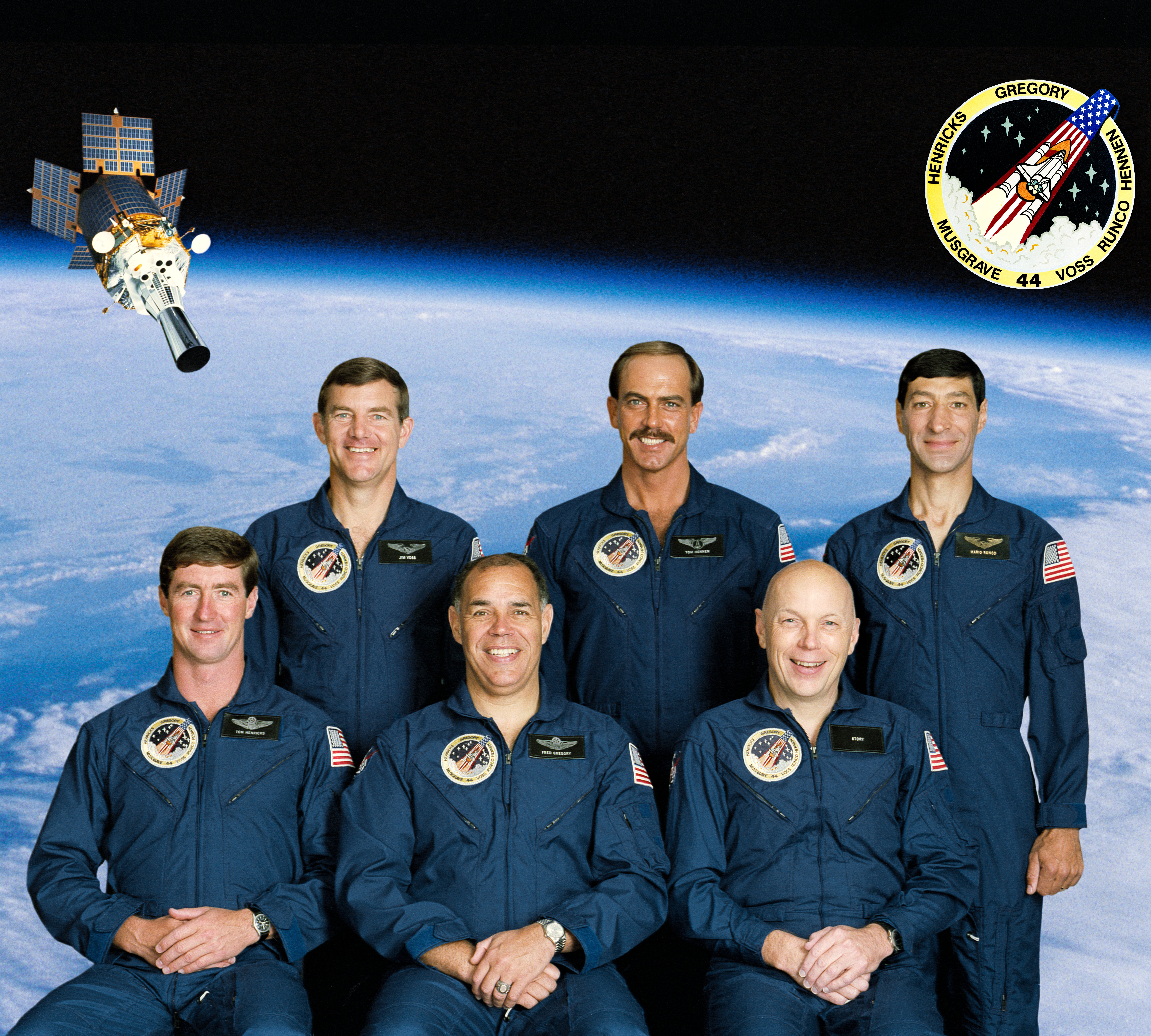 The STS-44 crew portrait includes 6 astronauts. Pictured seated, from left to right, are Terence T. Hendricks, pilot; Frederick D. Gregory, commander; and F. Story Musgrave, mission specialist. Standing on the back row (left to right) are James S. Voss, mission specialist; Thomas J. Hennen, payload specialist; and Mario Runco, Jr., mission specialist. The 6 crew members launched aboard the Space Shuttle Atlantis on November 24, 1991 at 6:44:00 pm (EST). Dedicated to the Department of Defense (DOD), the mission's primary unclassified payload was the Defense Support Program (DSP) satellite and attached Inertial Upper Stage (IUS).